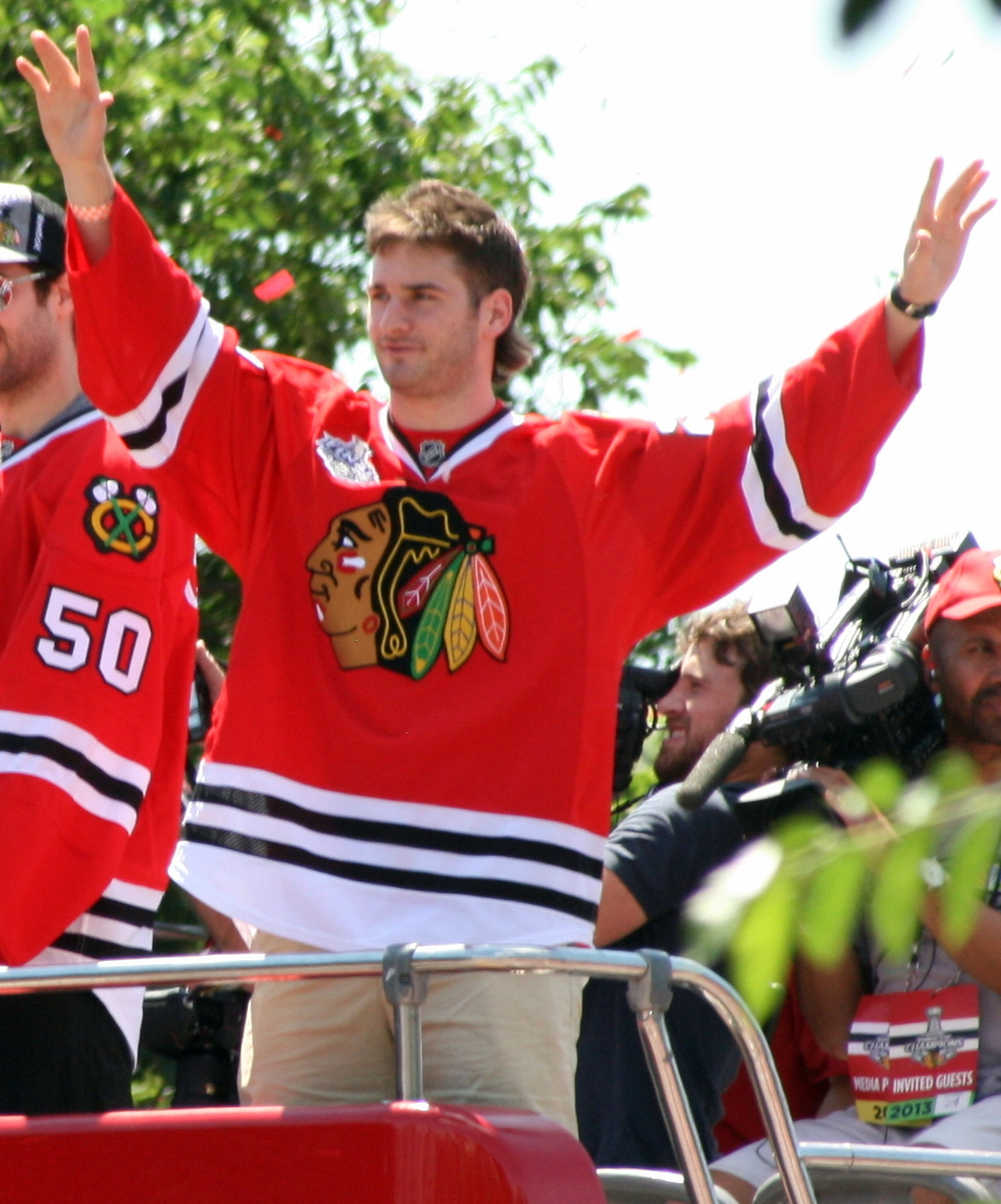 Blackhawks Victory Parade Chicago June 28th